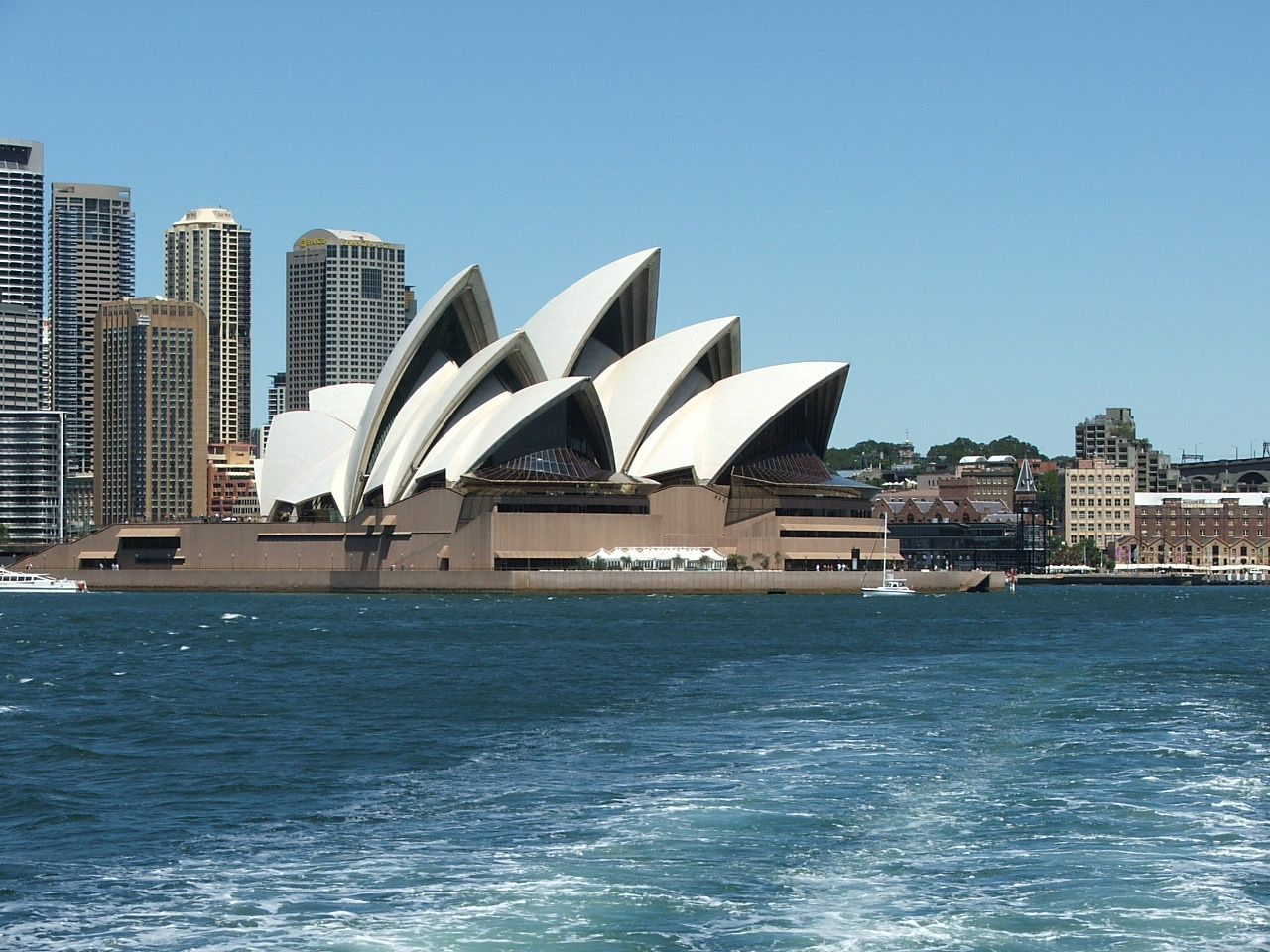 Opera house - sight from boat 2 - Pohled na Operu z lodi